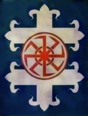 Svätoháj Rodnej Viery